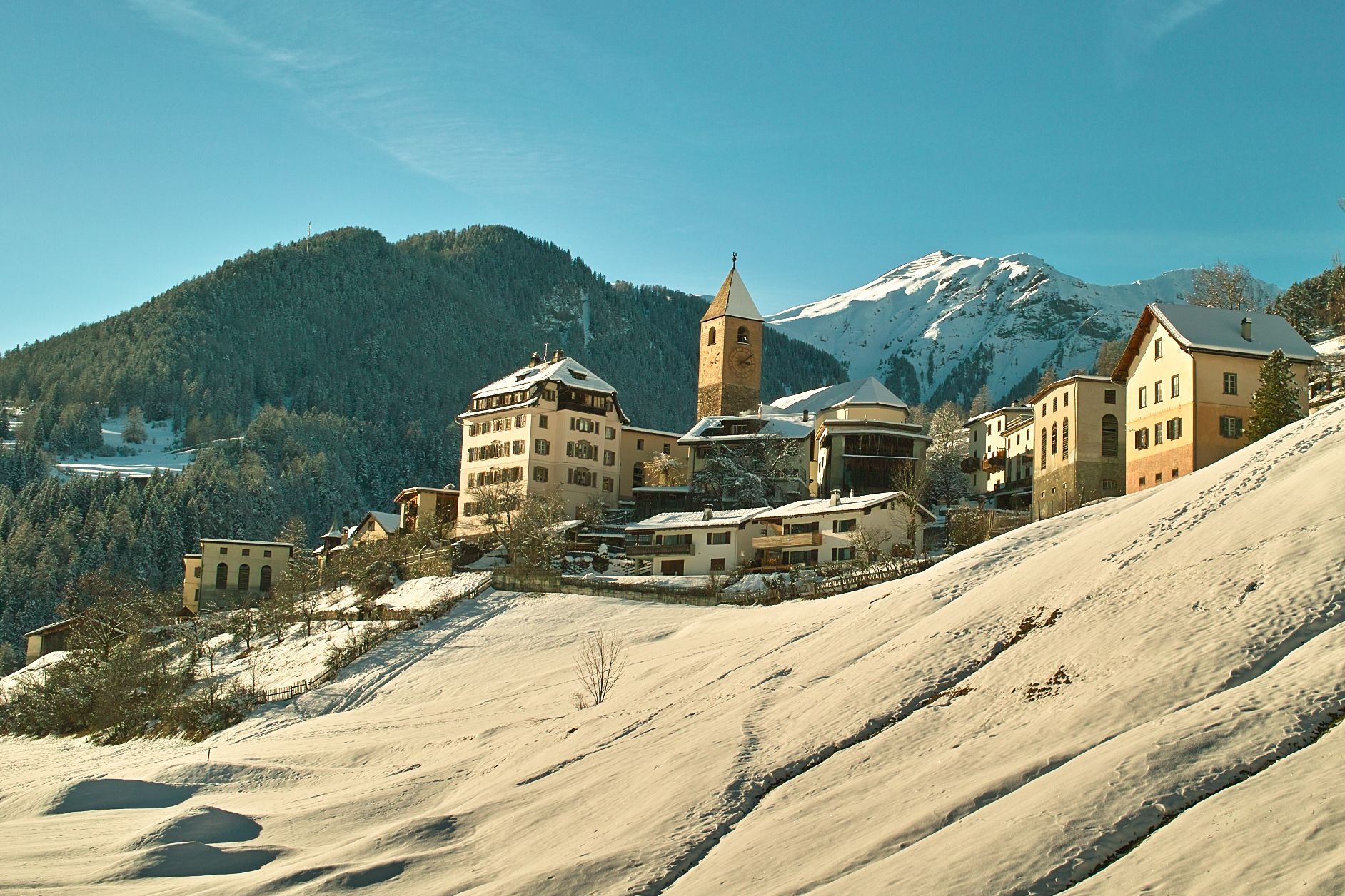 Village of Ramosch in winter